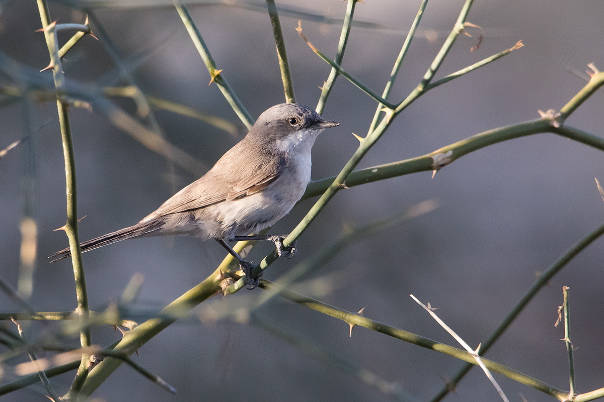 Individual at Desert National Park in Rajasthan India